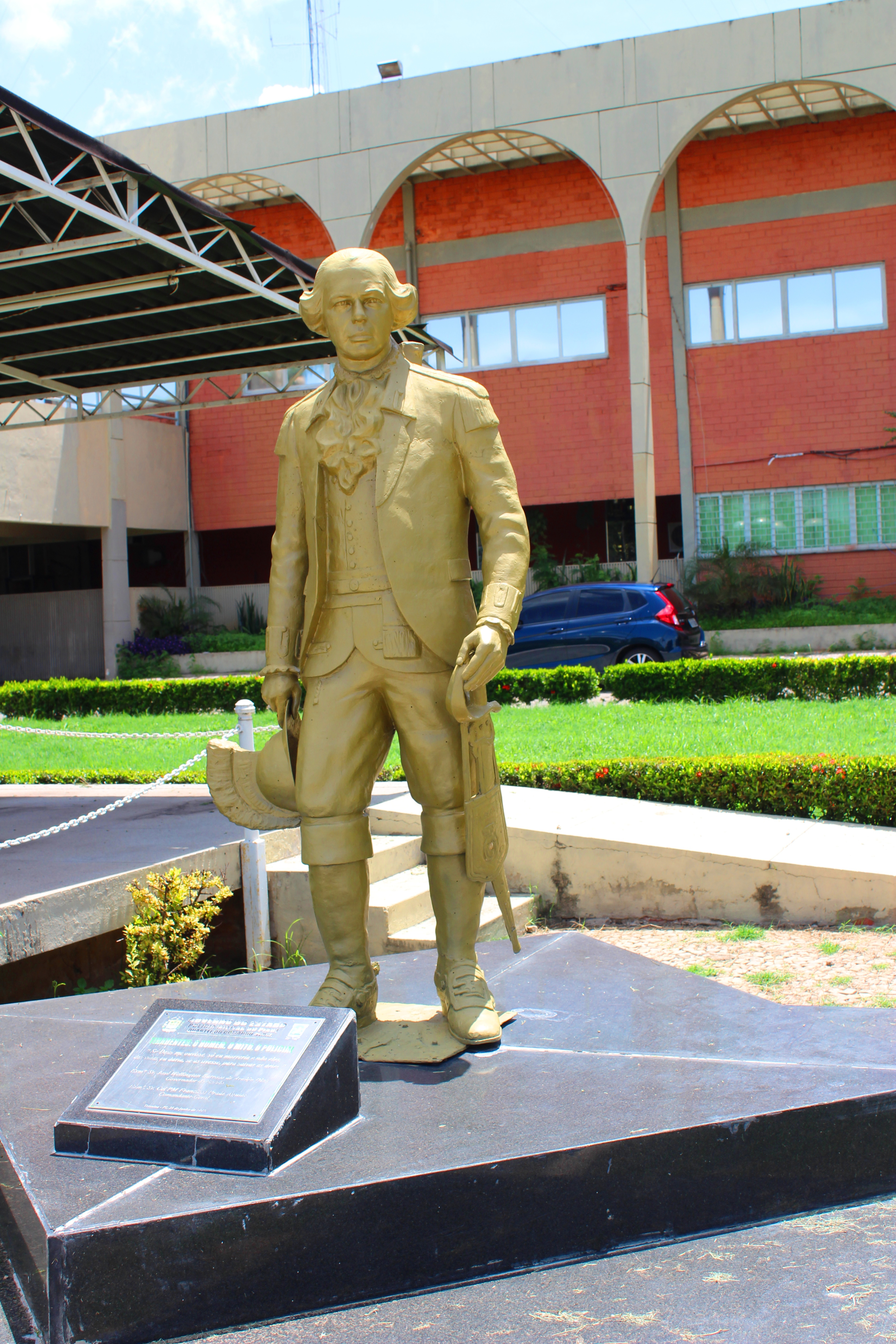 Military Police of state of Piauí, monument.